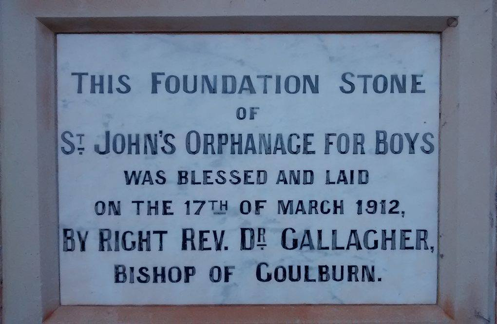 Foundation stone of the St. John's Orpahange in Goulburn, laid and blessed on 17 March, 1912.